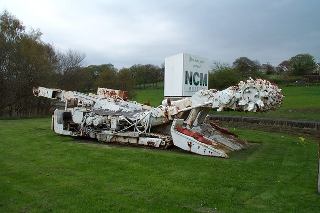 BJD Dresser Heleminer Mining Tunnelling machine originating in the USA and used underground as a tunneller / coal getting machine in the north east and the Selby mining complex, stands guard outside Caphouse Mining Museum.